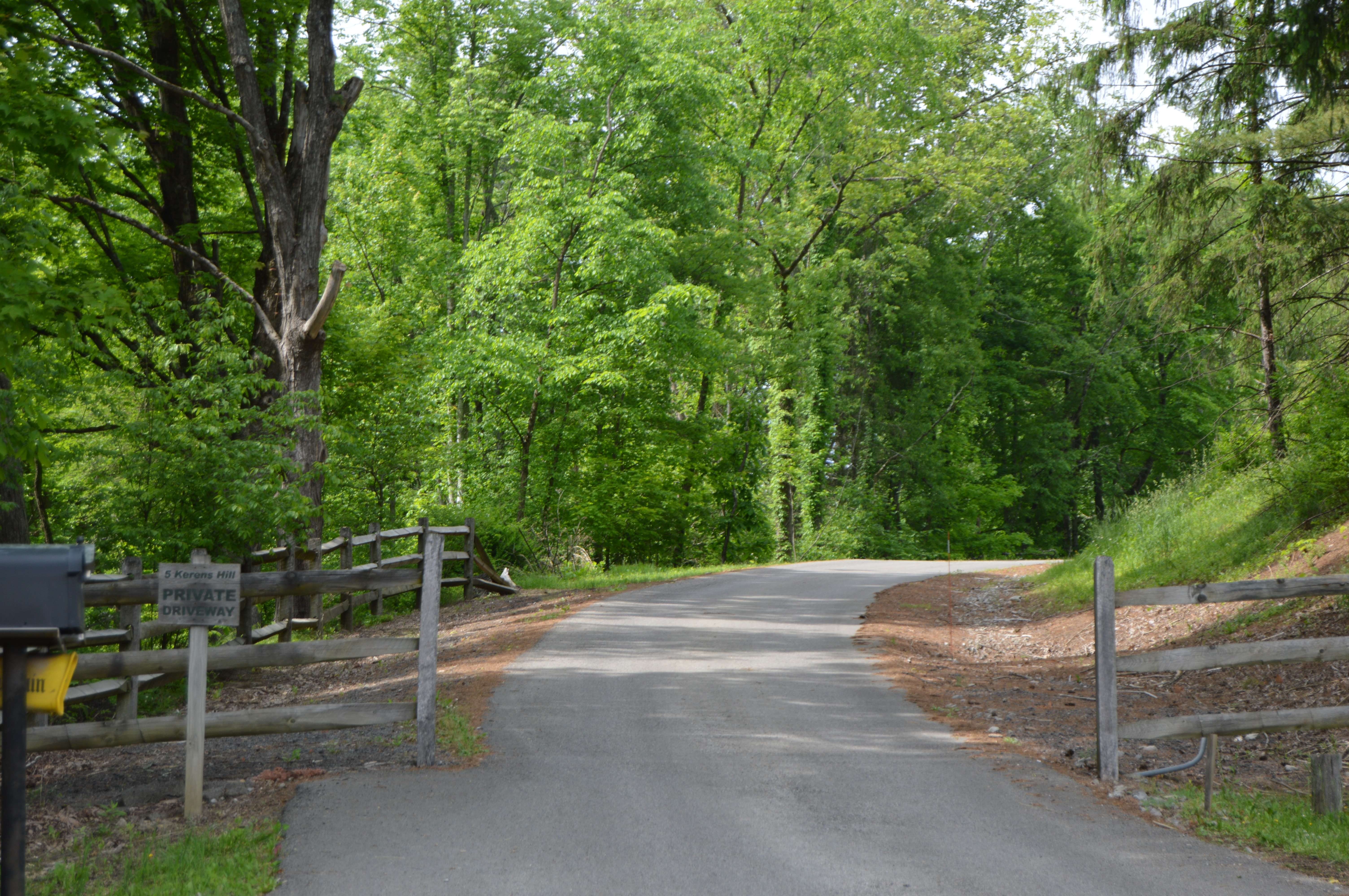 Driveway entrance to the Pinecrest estate, located off Harrison Avenue in Elkins, West Virginia, United States. The property is listed on the National Register of Historic Places.